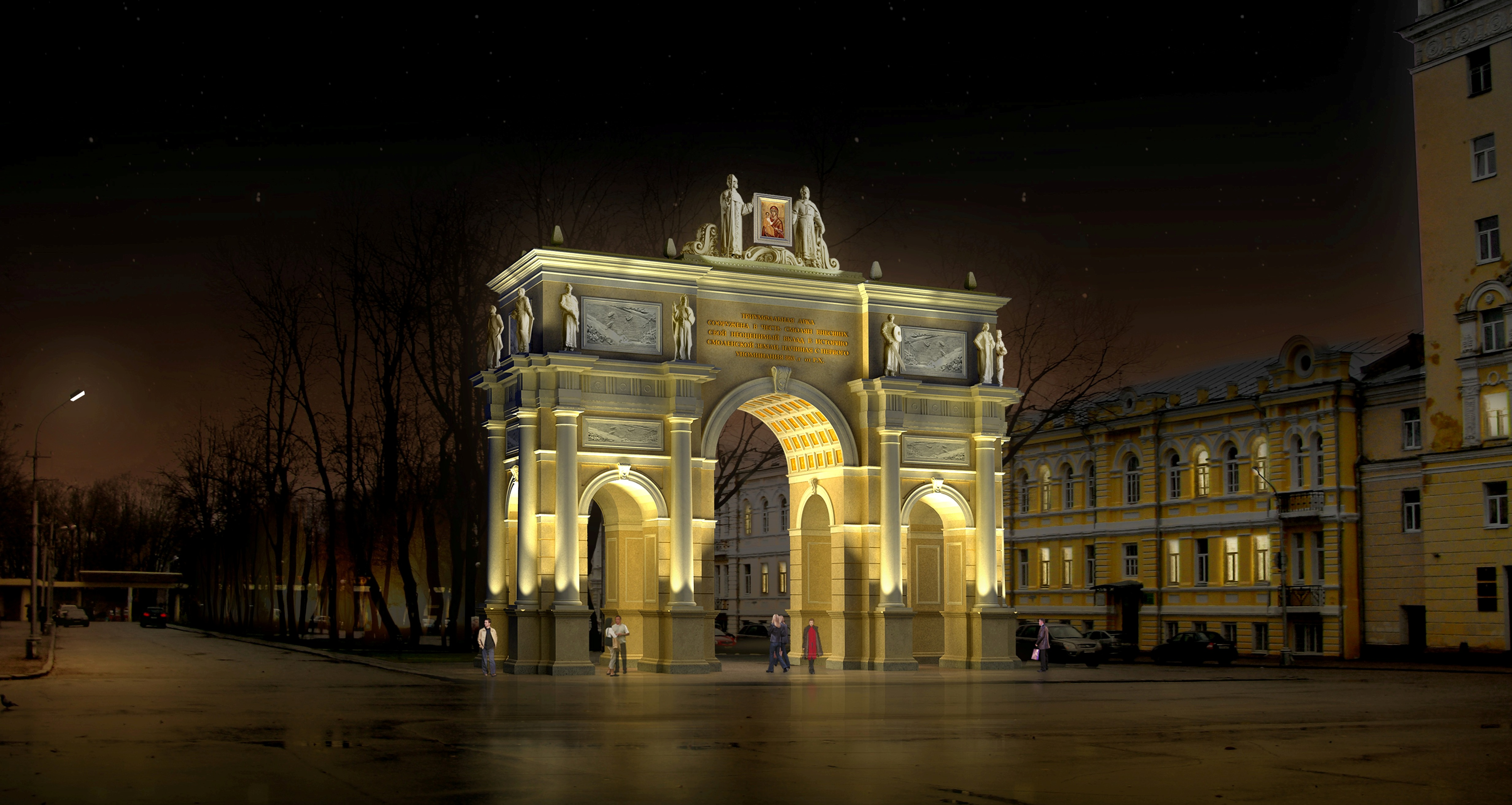 peter fishman works